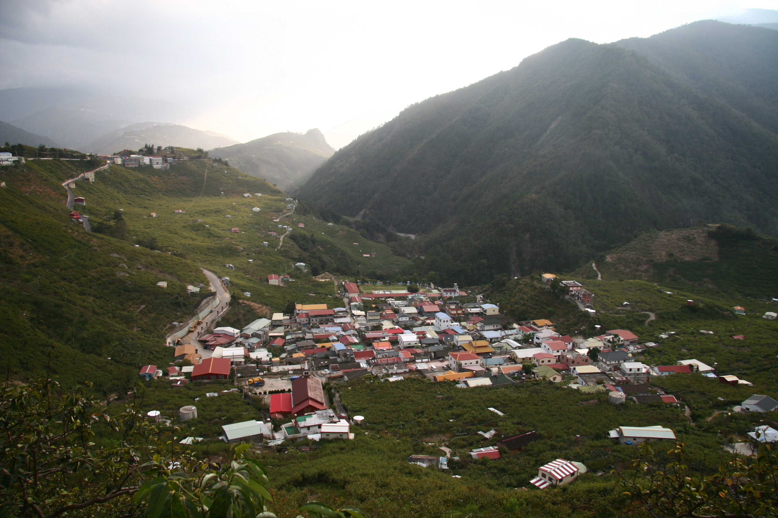 This view is the location known as "Huanshan Tribal Village" at the eastside of Taichang City in Taiwan.